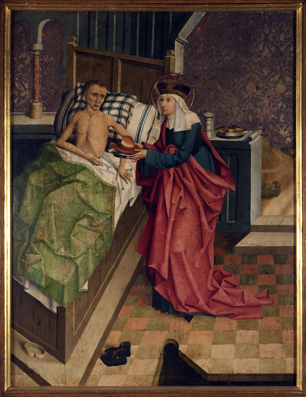 St. Hedwig of Silesia, Master of the Altarpiece of the Knights of the Cross with the Red Star, National Gallery in Prague